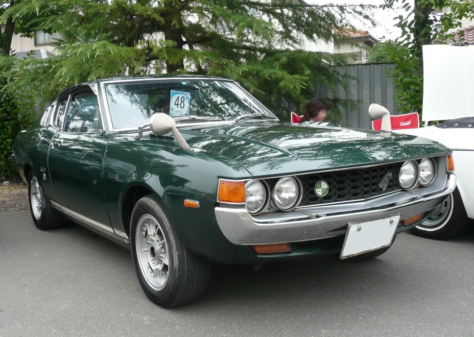 Toyota Celica 2000GT.